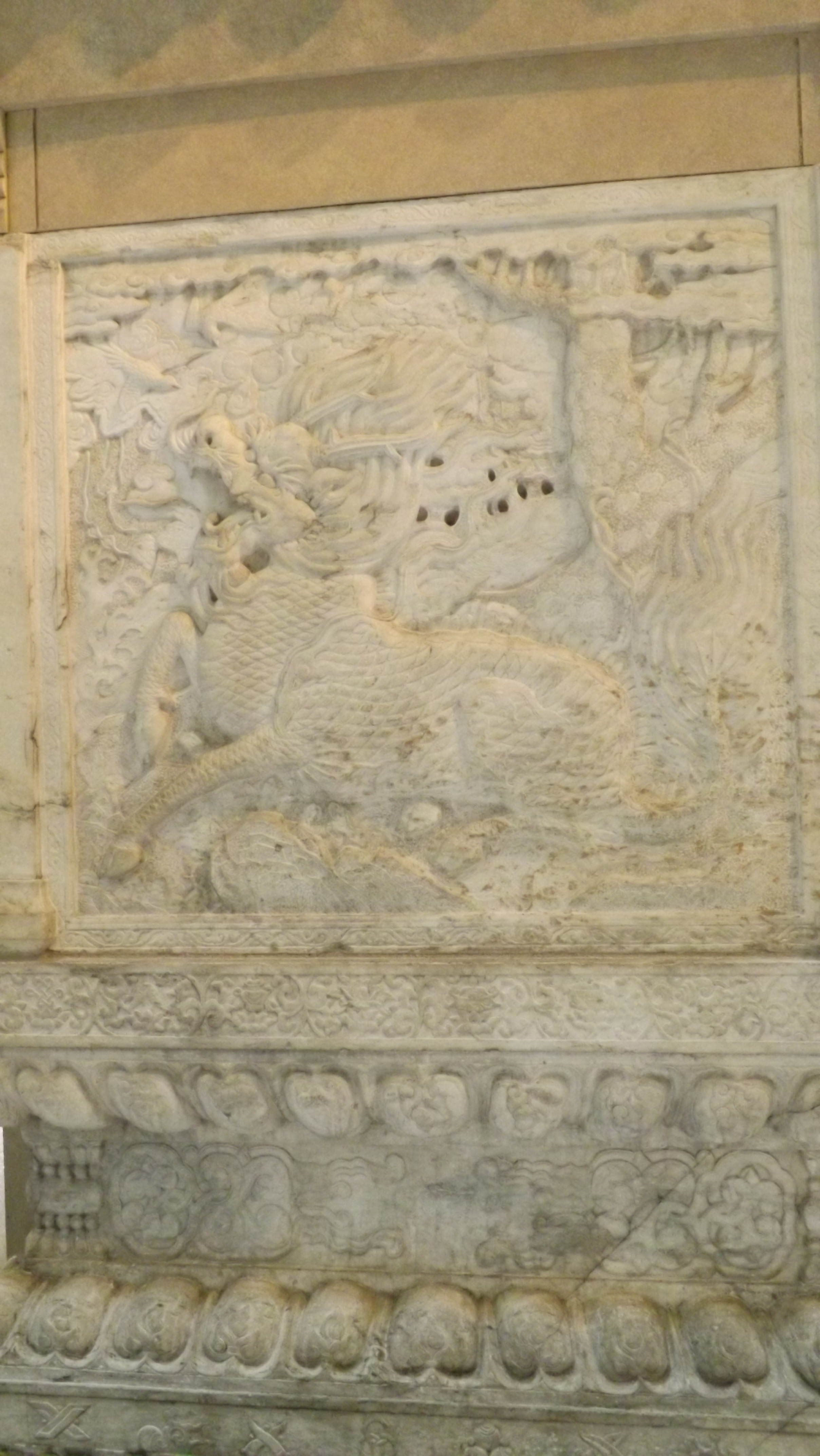 Wall carvings, Royal Ontario Museum